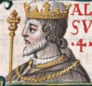 Miniature of Afonso IV of Portugal